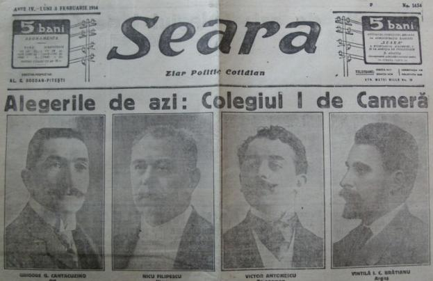 Title page of Seara ("The Evening"), a Romanian daily, with photographs of election candidates: Grigore Gheorghe Cantacuzino (its owner); Nicu [Nicolae] Filipescu; Victor Antonescu; Vintilă Brătianu.